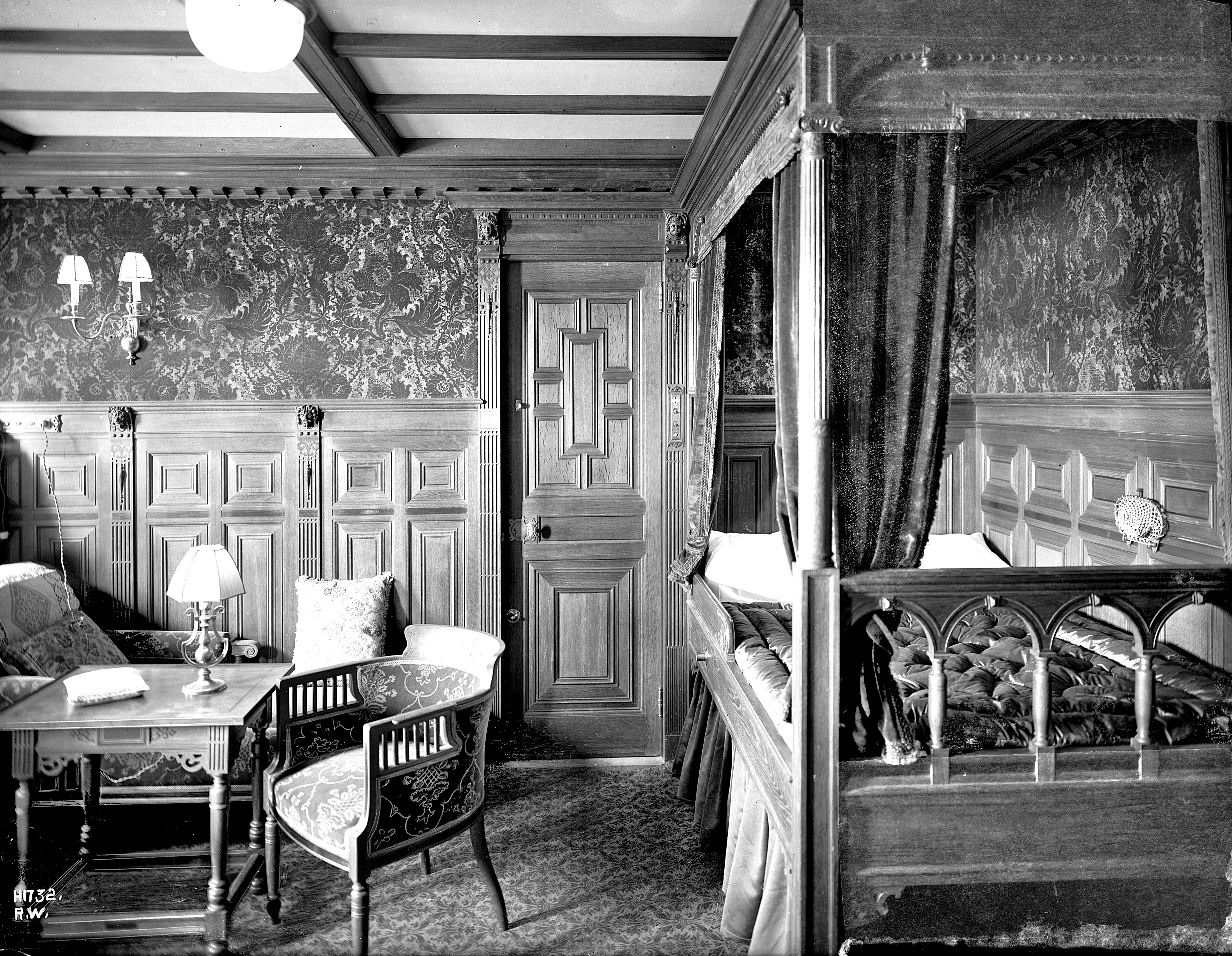 Stateroom B-59, decorated in Old Dutch style